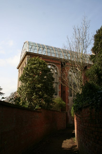 Flintham Hall conservatory This image was taken from the Geograph project collection. See this photograph's page on the Geograph website for the photographer's contact details. The copyright on this image is owned by Richard Croft and is licensed for reuse under the Creative Commons Attribution-ShareAlike 2.0 license. Attribution: Richard Croft